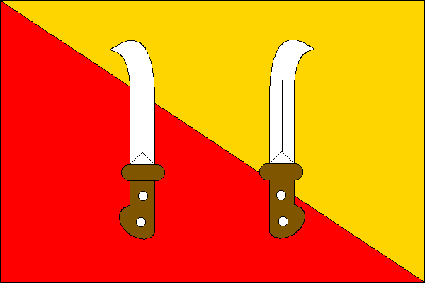 Municipal flag of Nové Město na Moravě, Žďár nad Sázavou District, Czech Republic.